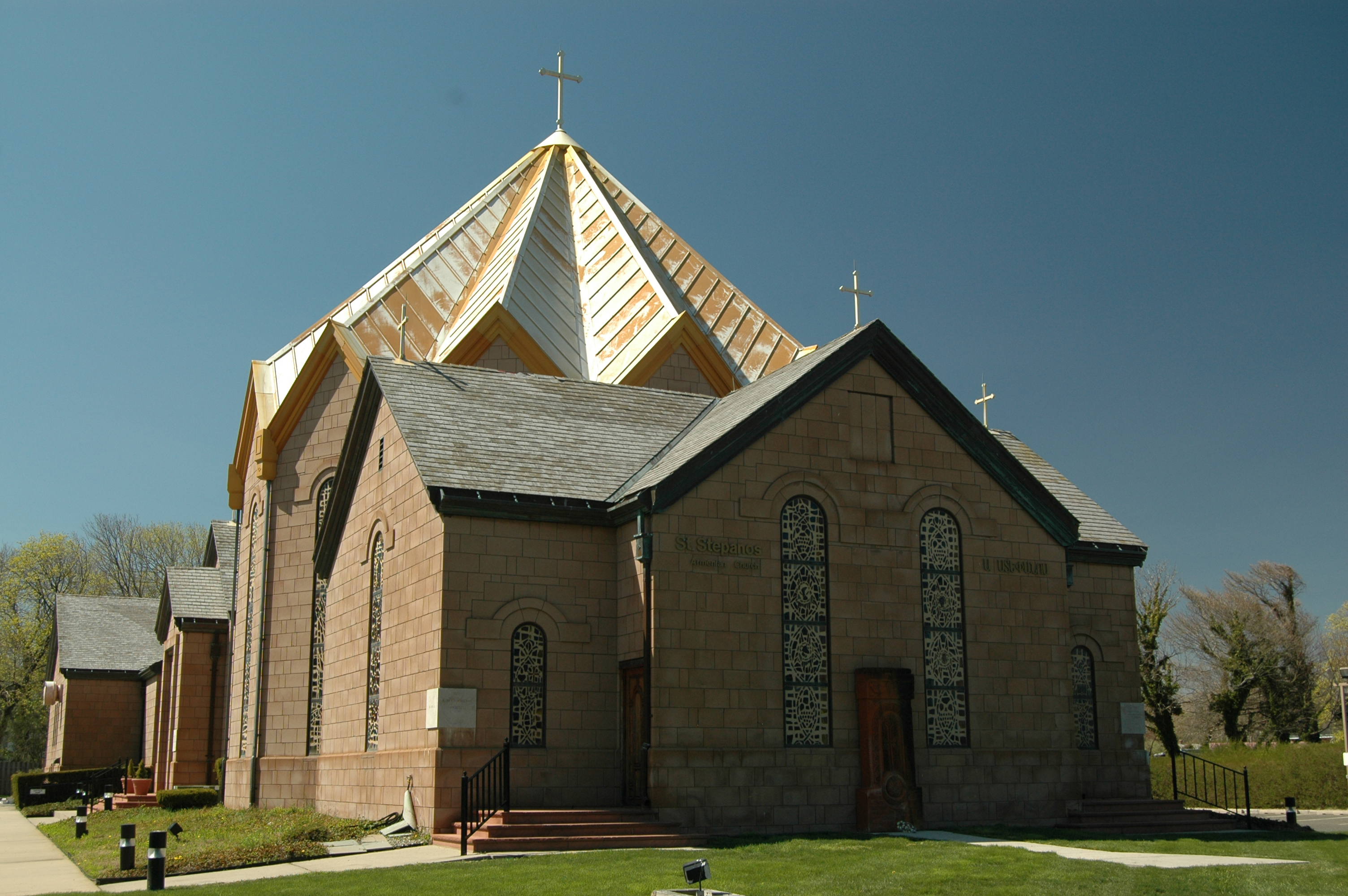 St. Stepanos Armenian Apostolic Church (constructed in 1986). on Ocean Ave., Elberon, New Jersey. (see also Armenian architecture)